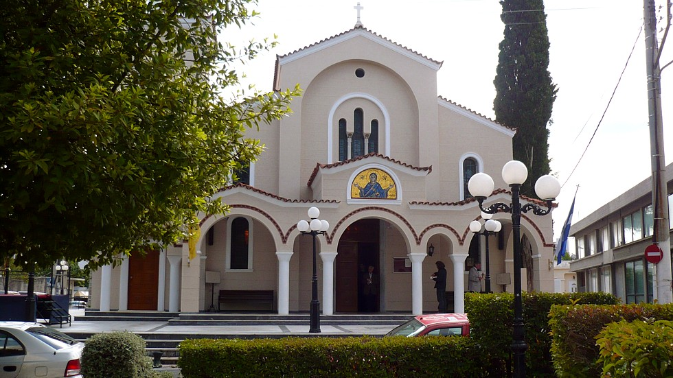 The Picture depicts the Ieros Naos Koimiseos tis Theotokou at Spata.